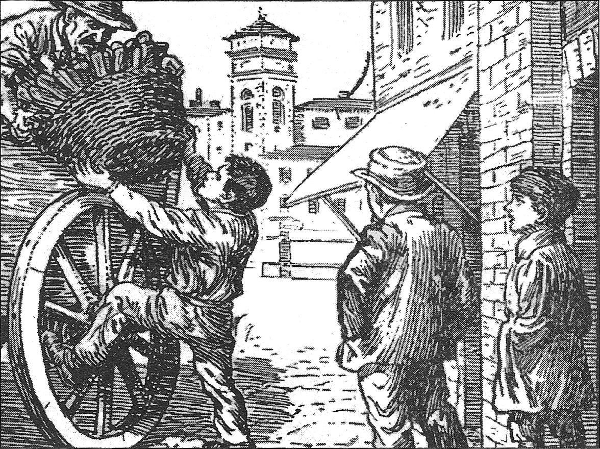 The 6th illustration from the Italian novel Heart by Edmondo de Amicis; it appears in the November chapter, on Sunday, 18.